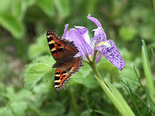 Indian Tortoiseshell Aglais caschmirensis. Shot taken in Kullu distt. of Himachal Pradesh, India during Saurkundi Pass Trek.